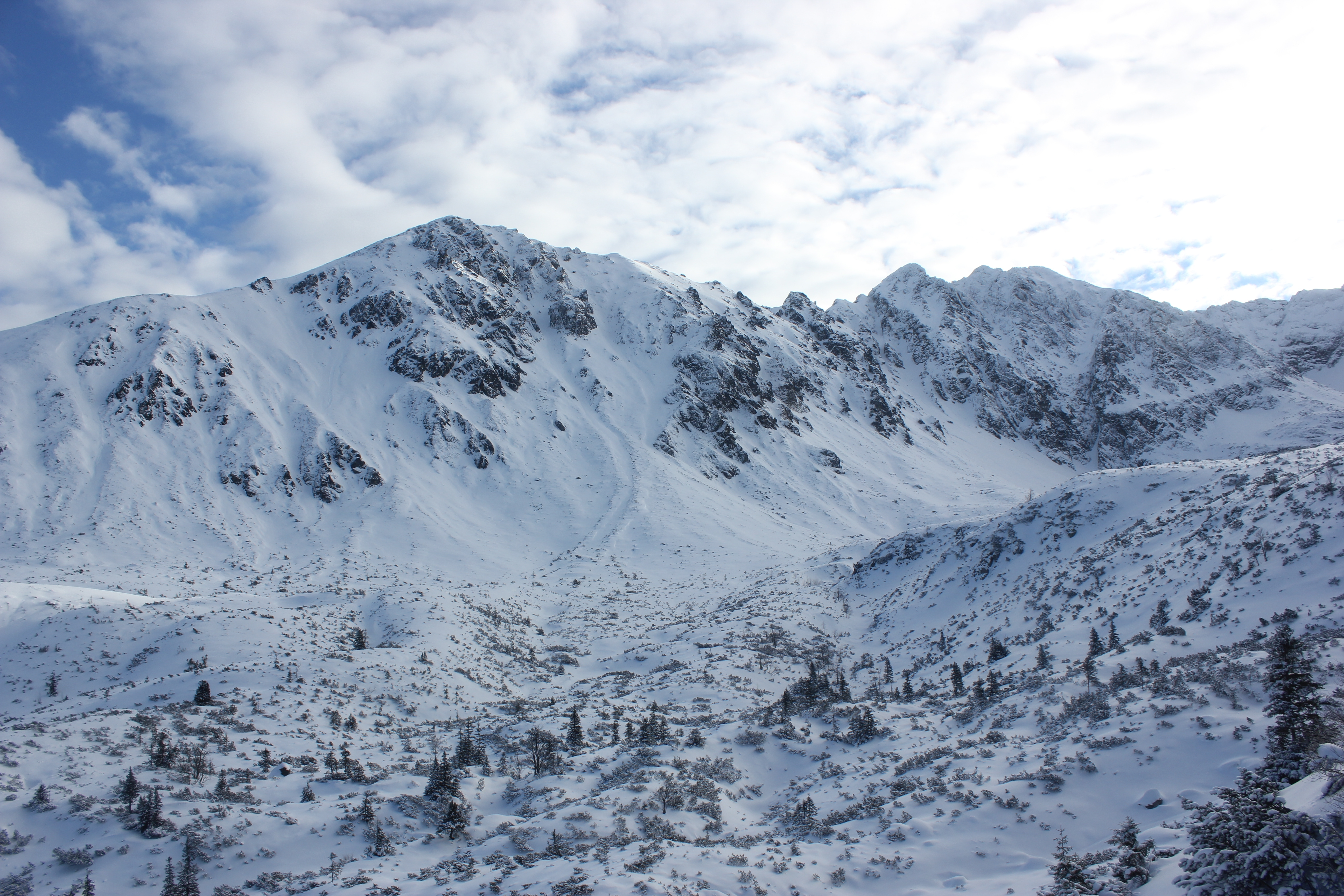 Mounts Żółta Turnia and Granaty